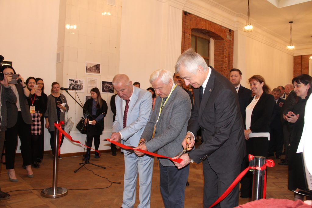 Открытие Информационного центра Объединенного института ядерных исследований в СОГУ